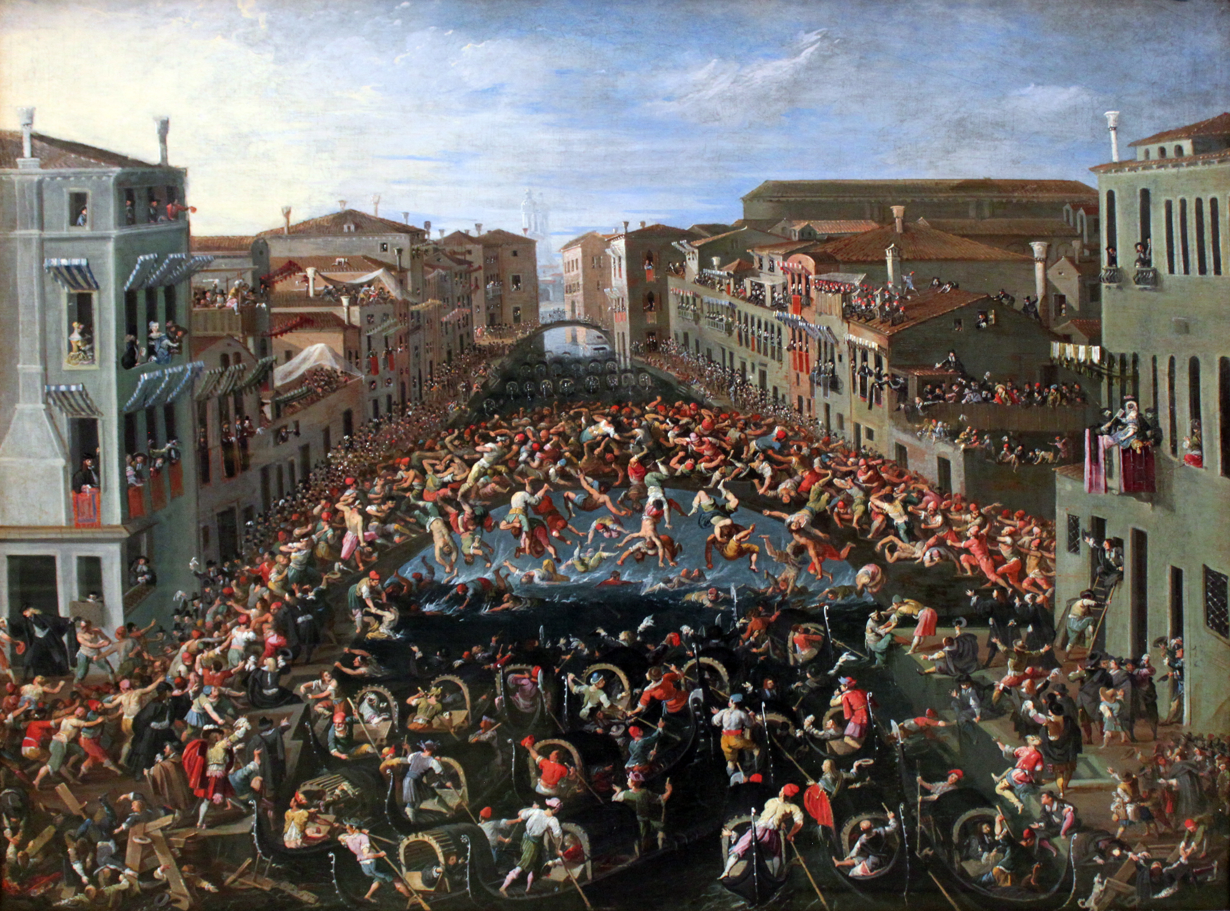 annual competion between the inhabitants the eastern and western sestiere